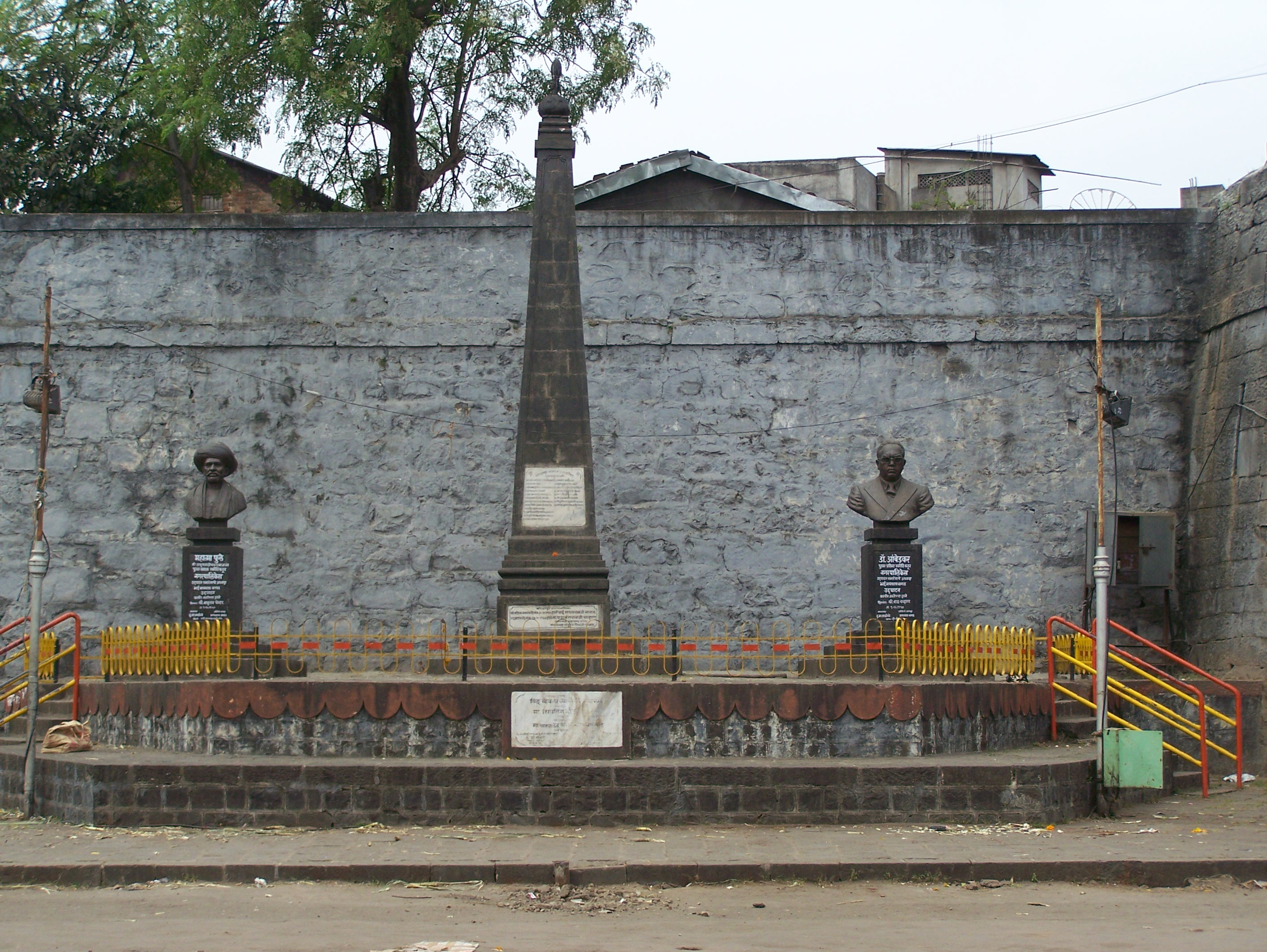 Busts of Dr. Babasaheb Ambedkar (right), Mahatma Phule (left) and memorial pillar for martyrs of Indian Independence movement, at Bindu Chowk in Kolhapur, Maharashtra, India. The Dr. Ambedkar's statue is the world's first statue of Babasaheb Ambedkar, inaugurated on 7 December 1950.